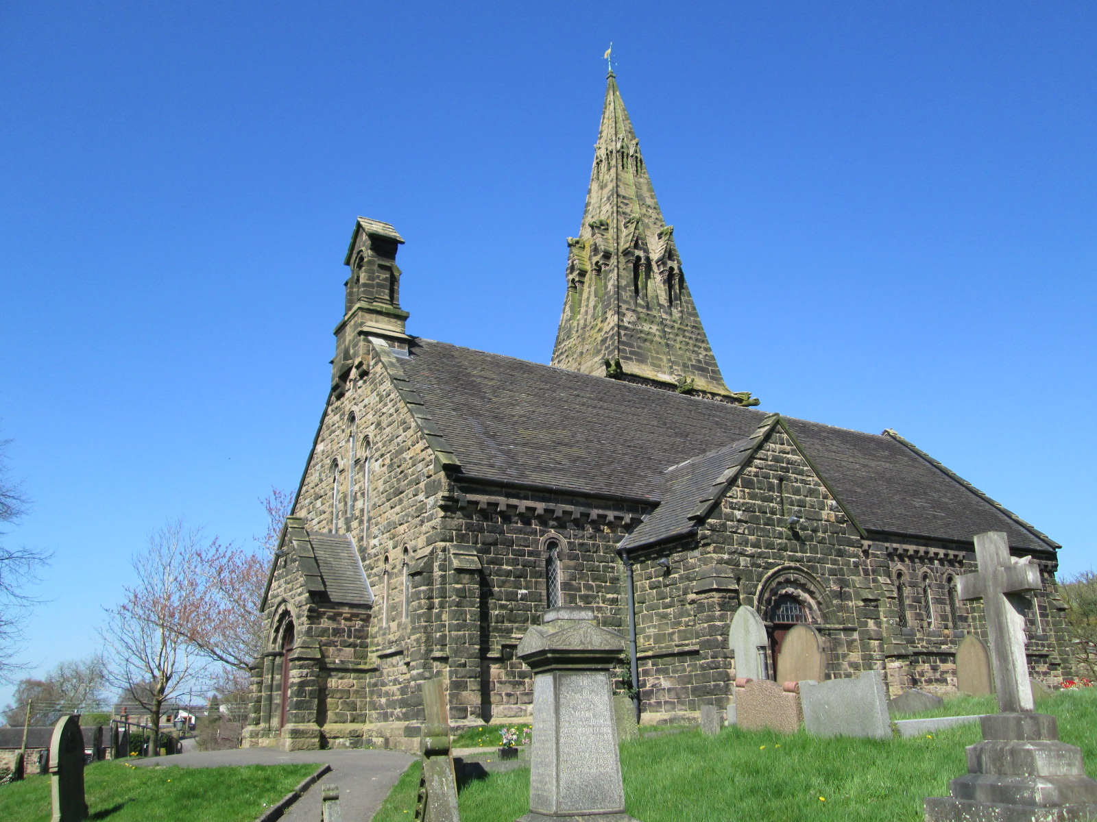 St Anne's Church in Brown Edge, Staffordshire, viewed from the south-west.